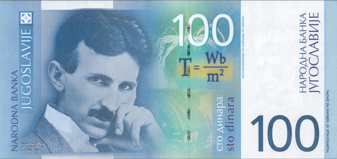 100 new S.R.J., Serbia-Montenegro dinars. Beograd, 2000. Obverse. Nikola Tesla and Tesla formula on the 2000 note of Serbia-Montenegro.